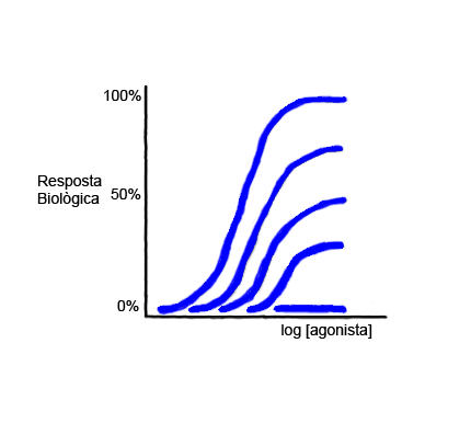 Non-Competitive Antagonists (Catalan)